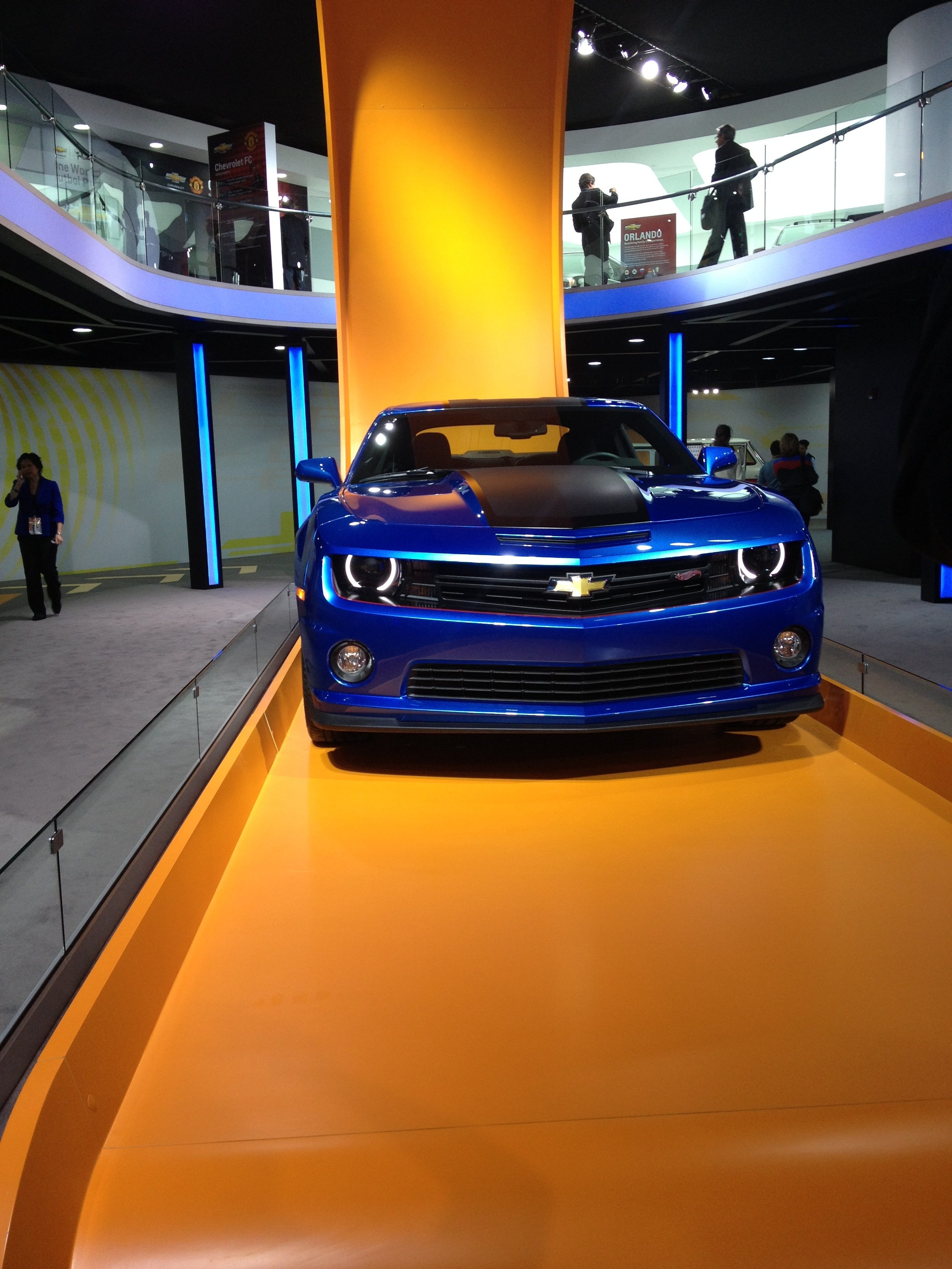 2013 North American International Auto Show Detroit, Michigan